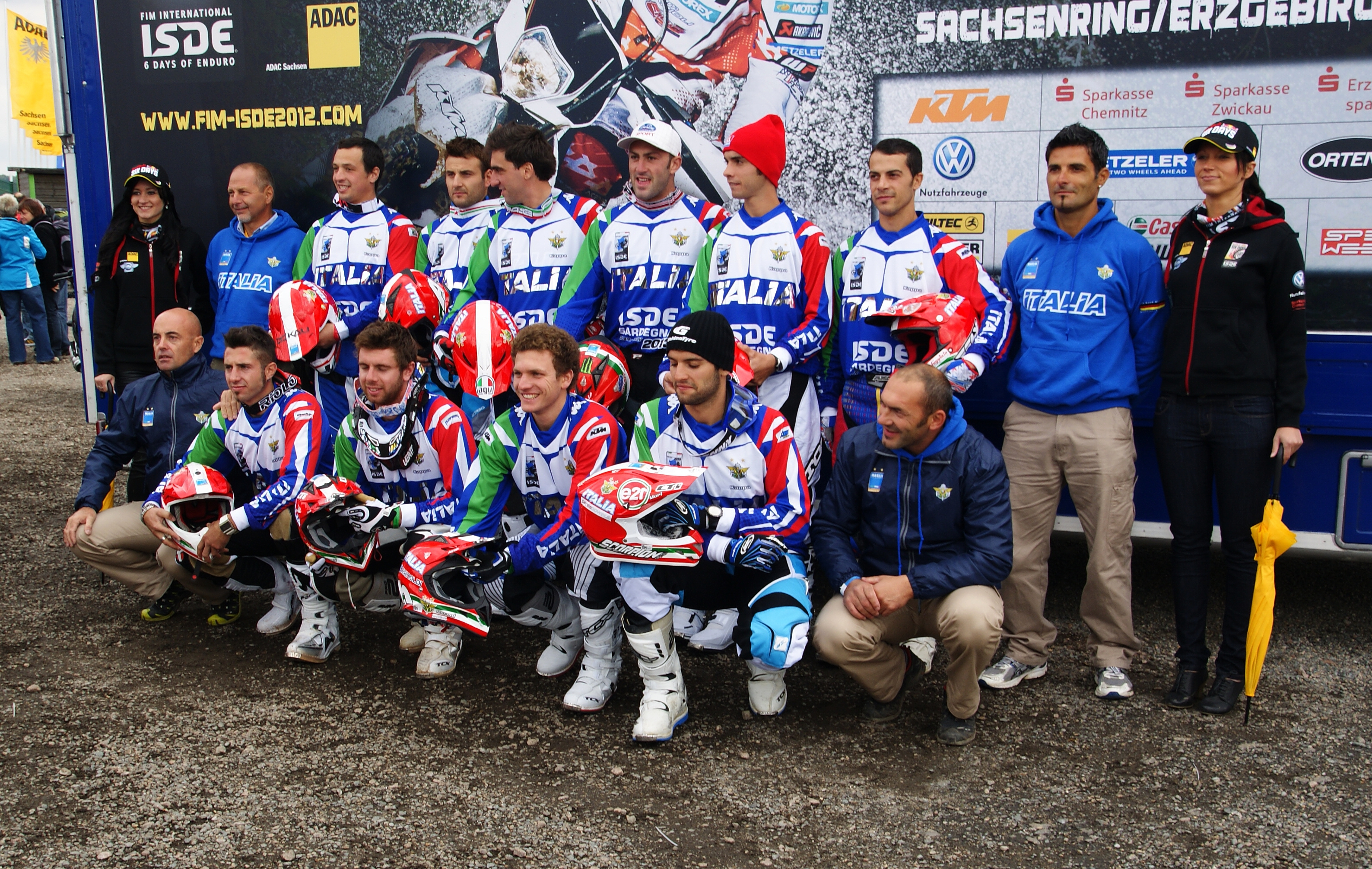 The making of this document was supported by the Community-Budget of Wikimedia Germany. 87. ISDE Red Bull Six Days 2012 National Teams Italy